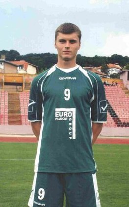 Footballer